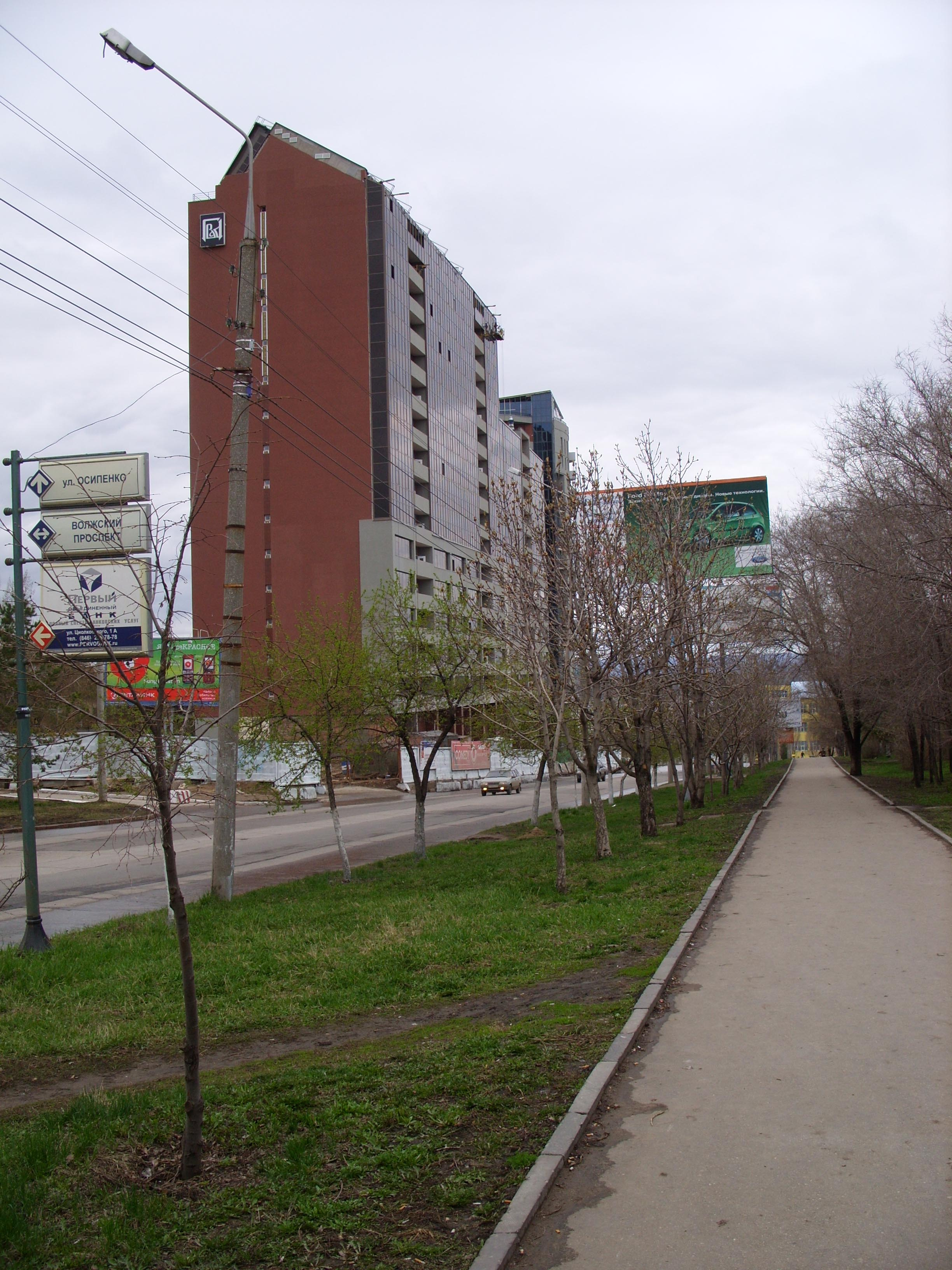 Osipenko st., Samara